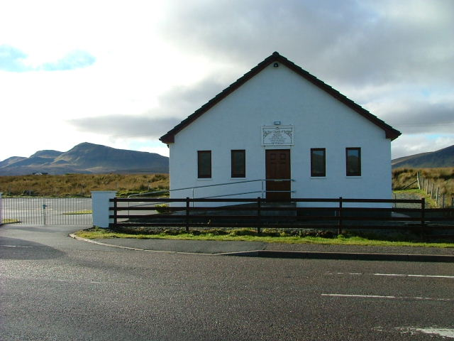 Staffin Free Church of Scotland (Continuing) The hill to the left of the church is Ben Edra.